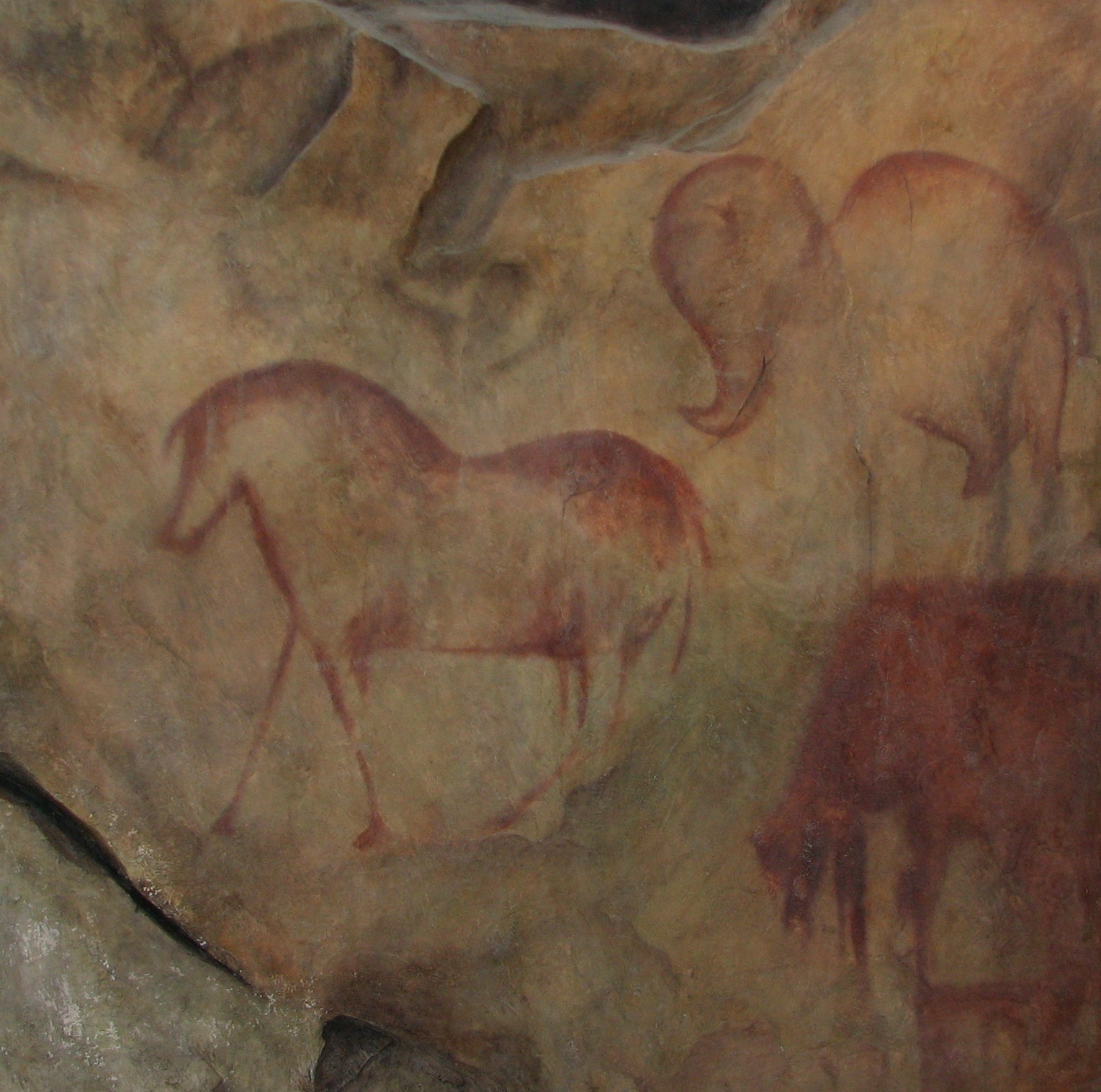 Paintings from the Kapova cave (Капова пещера), southern Ural. Replica in the Brno museum Anthropos.